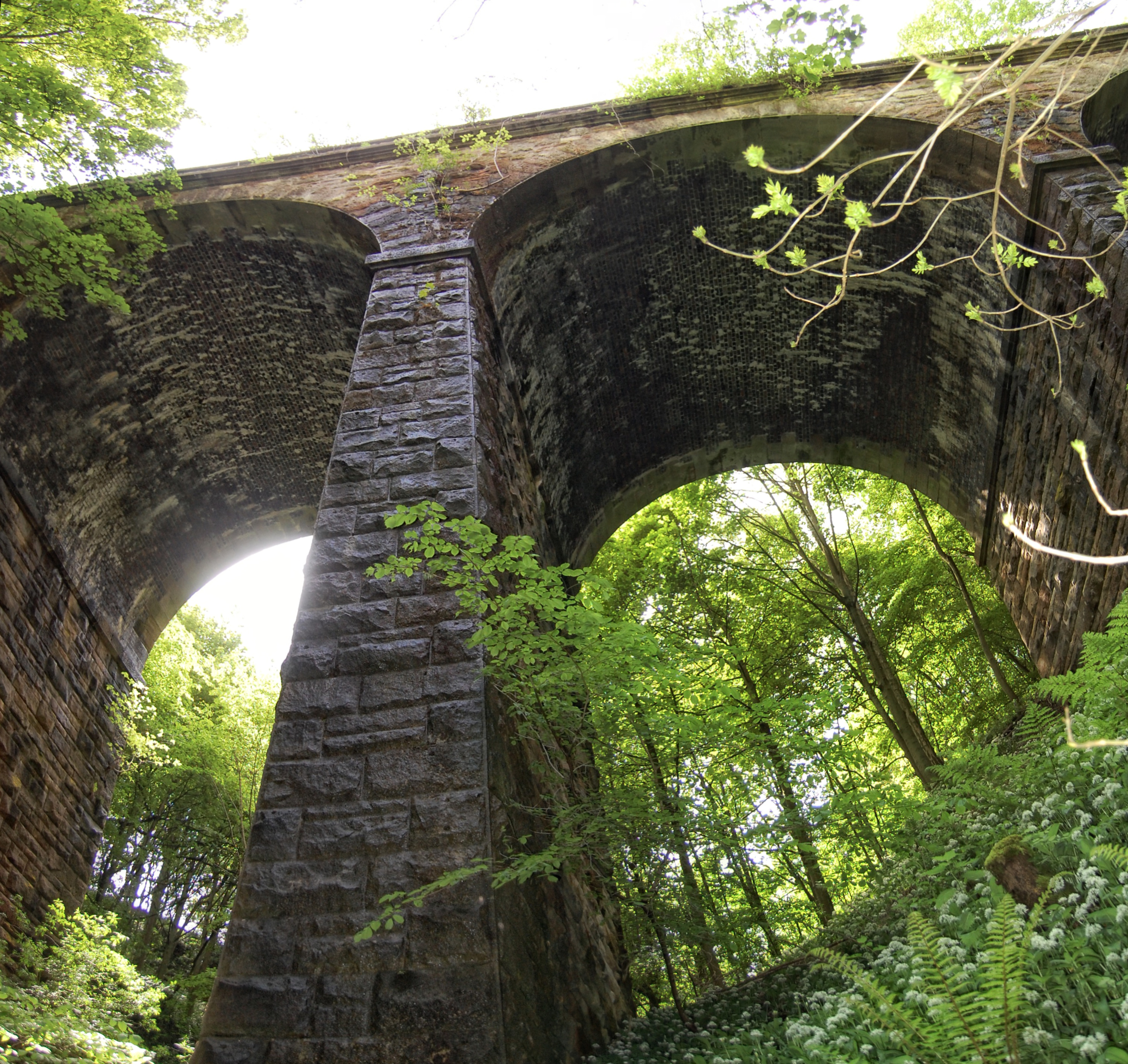 This is a shot of the derelict Lobb Ghyll Viaduct, an incredible five arch construction hidden away in a bluebell wood by the River Wharfe to the south of Bolton Bridge in Yorkshire. Like most of the old railway structures in the area, it is hewn from a local type of rock called millstone grit. It was built by the Midland Railway in 1888 to connect Ilkley and Skipton. This stretch of the line was closed in 1965 in the Beeching Axe but a part of it lives on in the form of the Embsay Steam Railway which begins at Bolton Abbey Station, just over half a mile up the old line to the north of this spot.